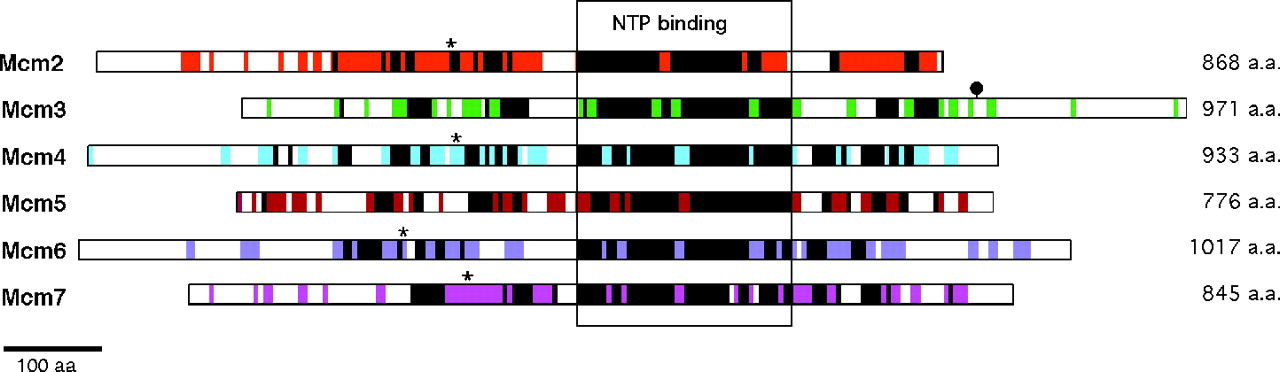 Subunits of the Mcm2-7 complex are highly conserved and each has a corresponding homolog in all eukaryotes